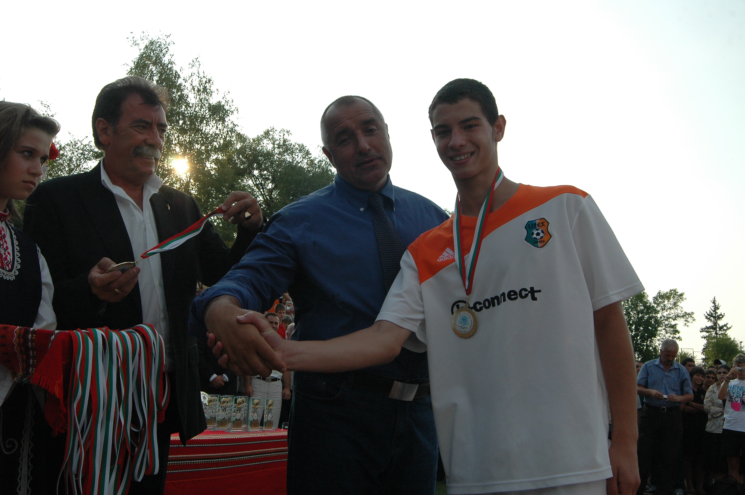 Simeon Slavchev